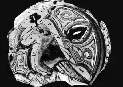 Ceramic from Baylakan (Azerbaijan)